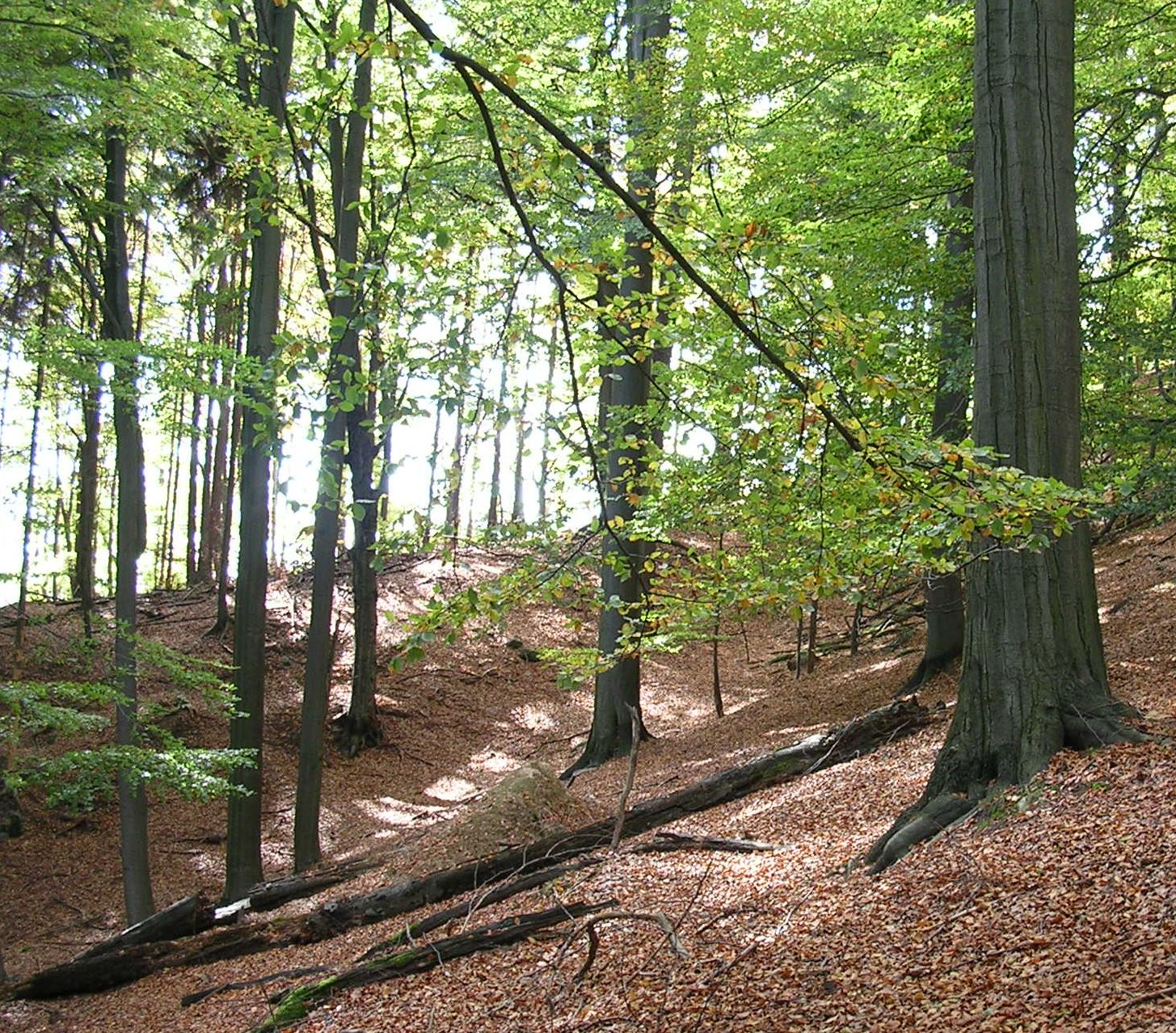 Bohemian Switzerland, the Czech Republic